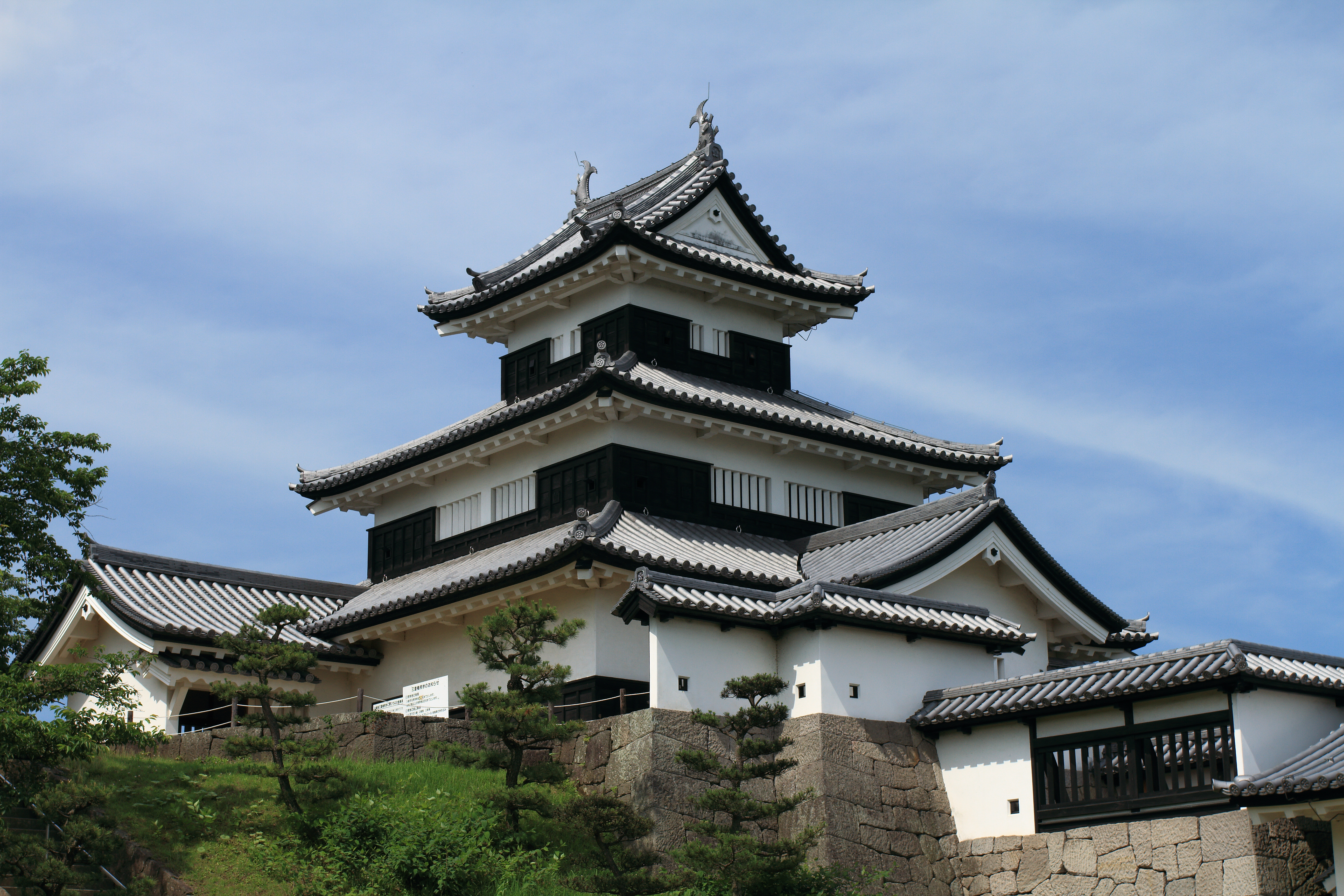 Shirakawa Komine Castle, Keep Tower